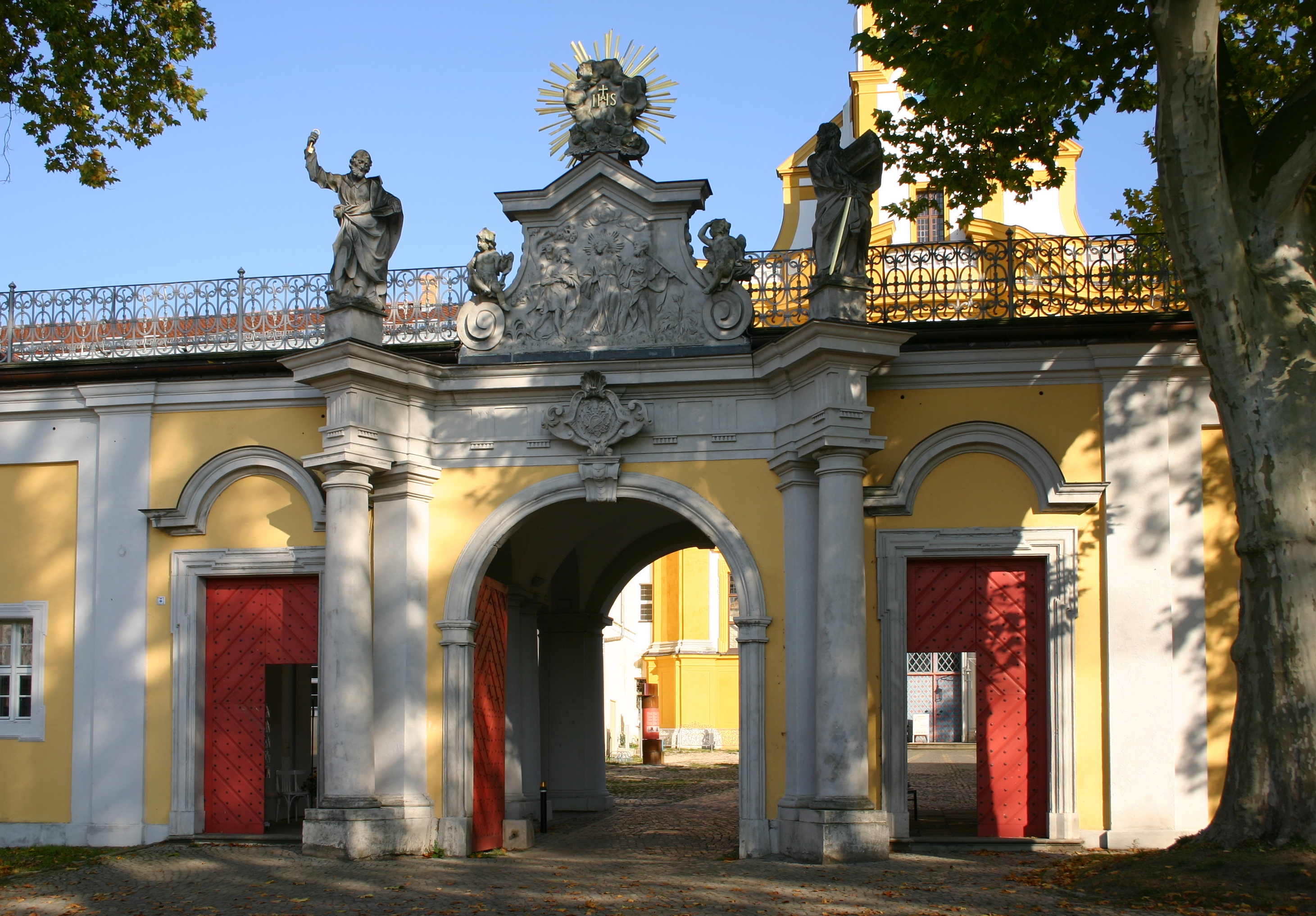 Gate of Neuzelle abbey.